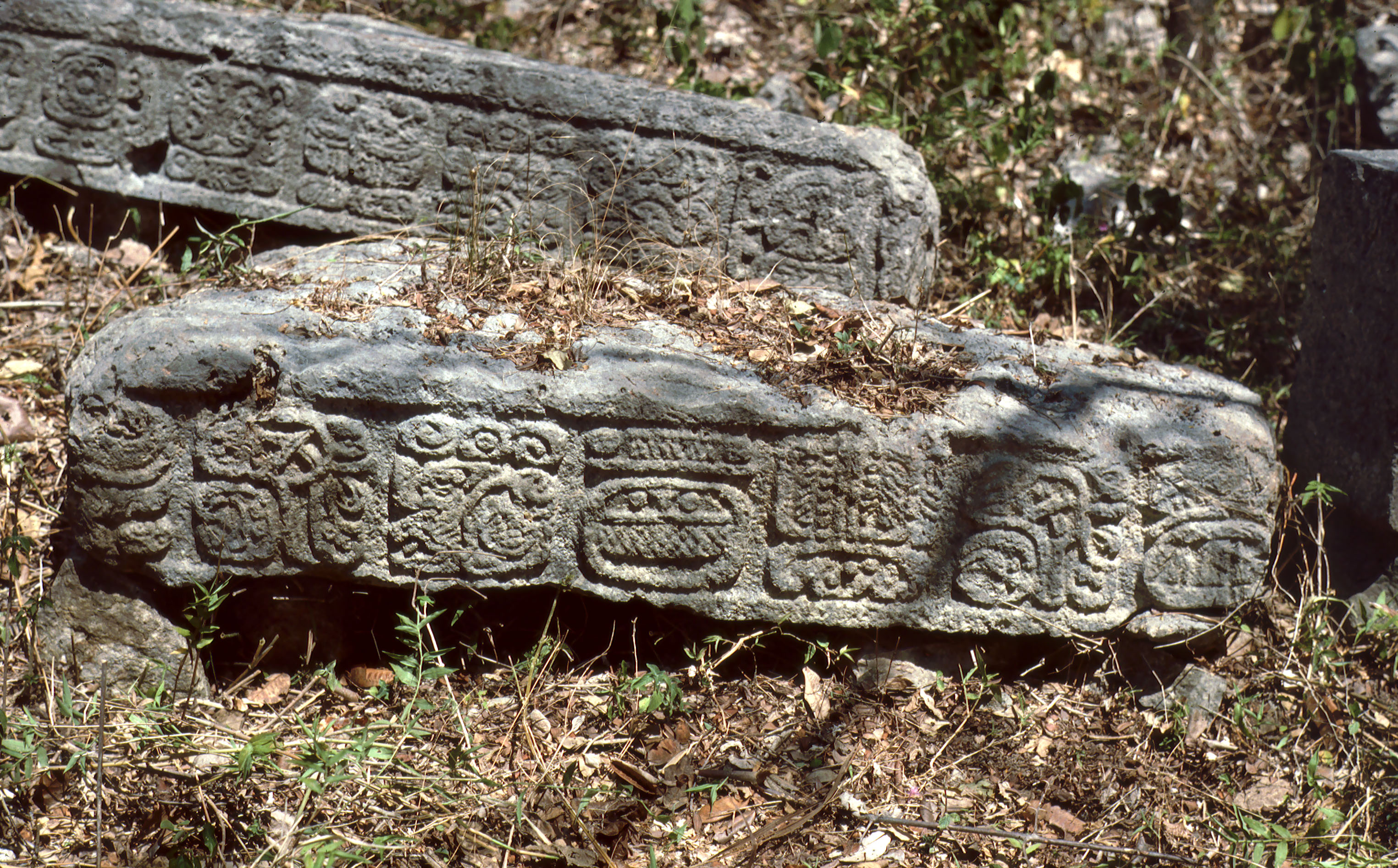 Xcalumkin, Campeche, Mexico. Group of the Initial Series, middle lintel.